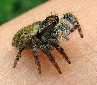 female Evarcha albaria from Japan.